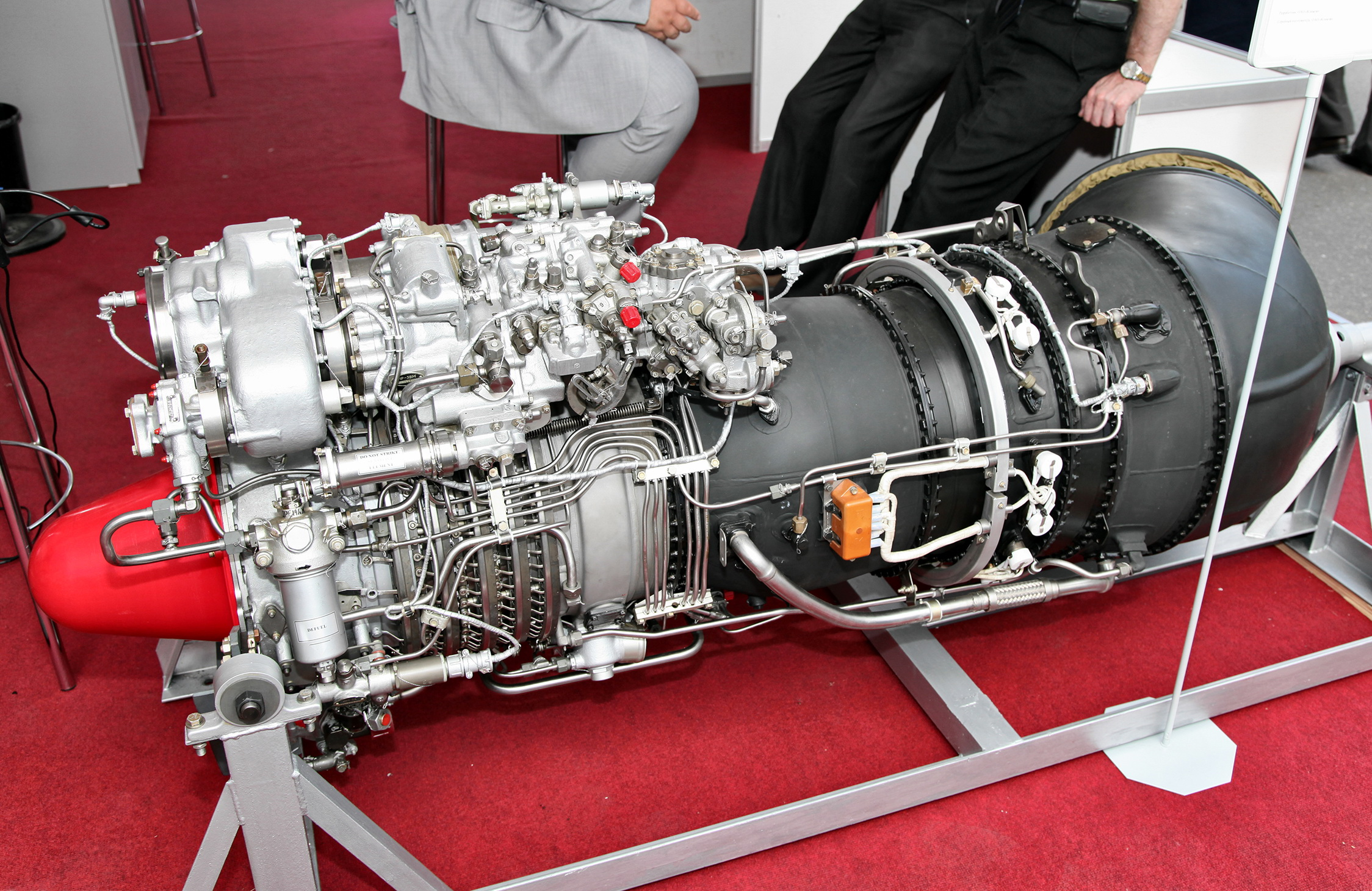 VK-2500P engine for Mi-8/17/24/28/34 and Ka-52